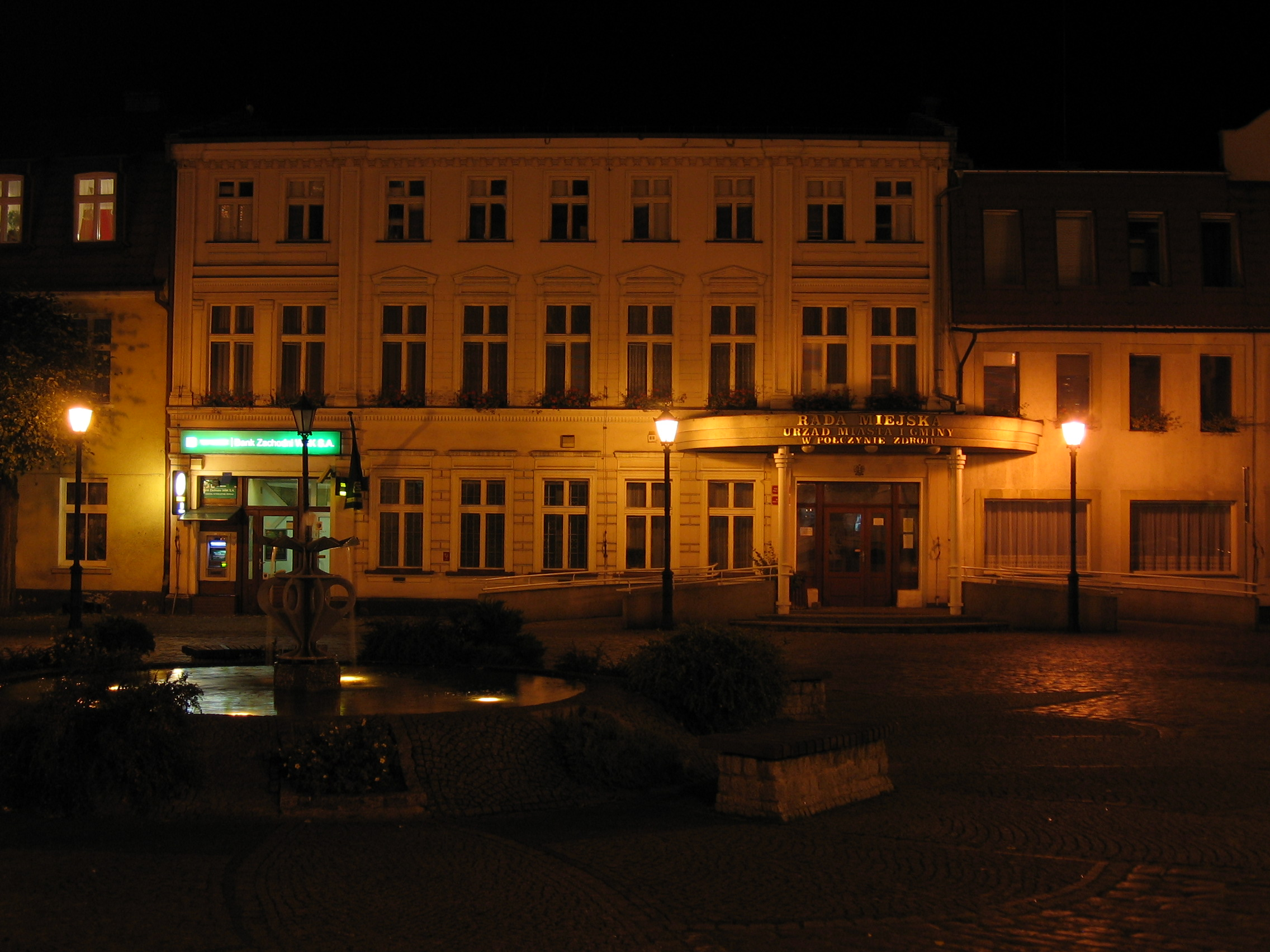 Town Hall at night in Połczyn-Zdrój, Poland